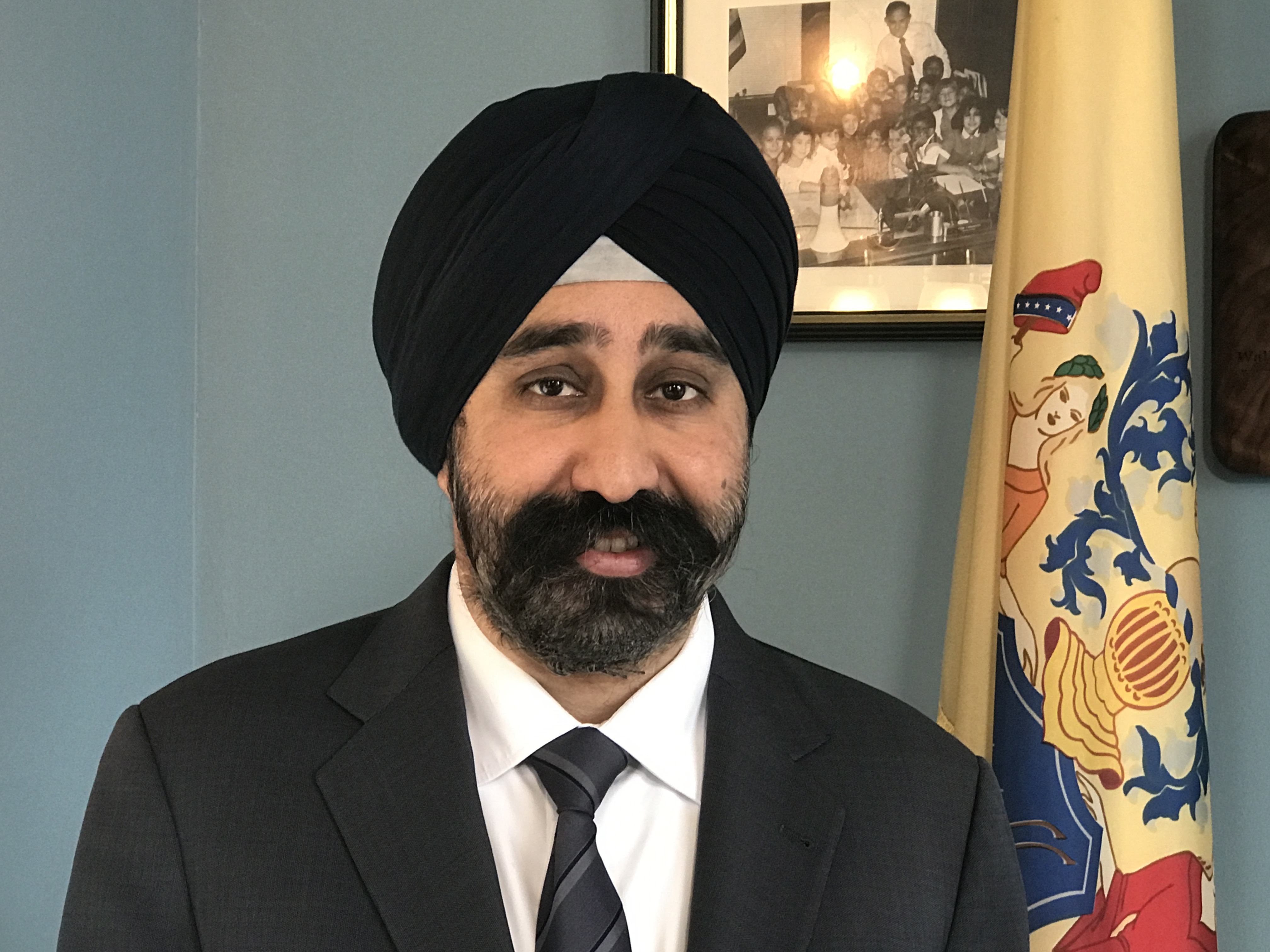 Civil rights activist and lawyer Ravinder "Ravi" Bhalla, a month after he was elected Mayor of Hoboken, New Jersey, in the Mayor's office at Hoboken City Hall on December 19, 2017. Many thanks to Mayor Bhalla and his chief of staff, John Allen, for the shoot. This photo was created by Luigi Novi. It is not in the public domain, and use of this file outside of the licensing terms is a copyright violation.